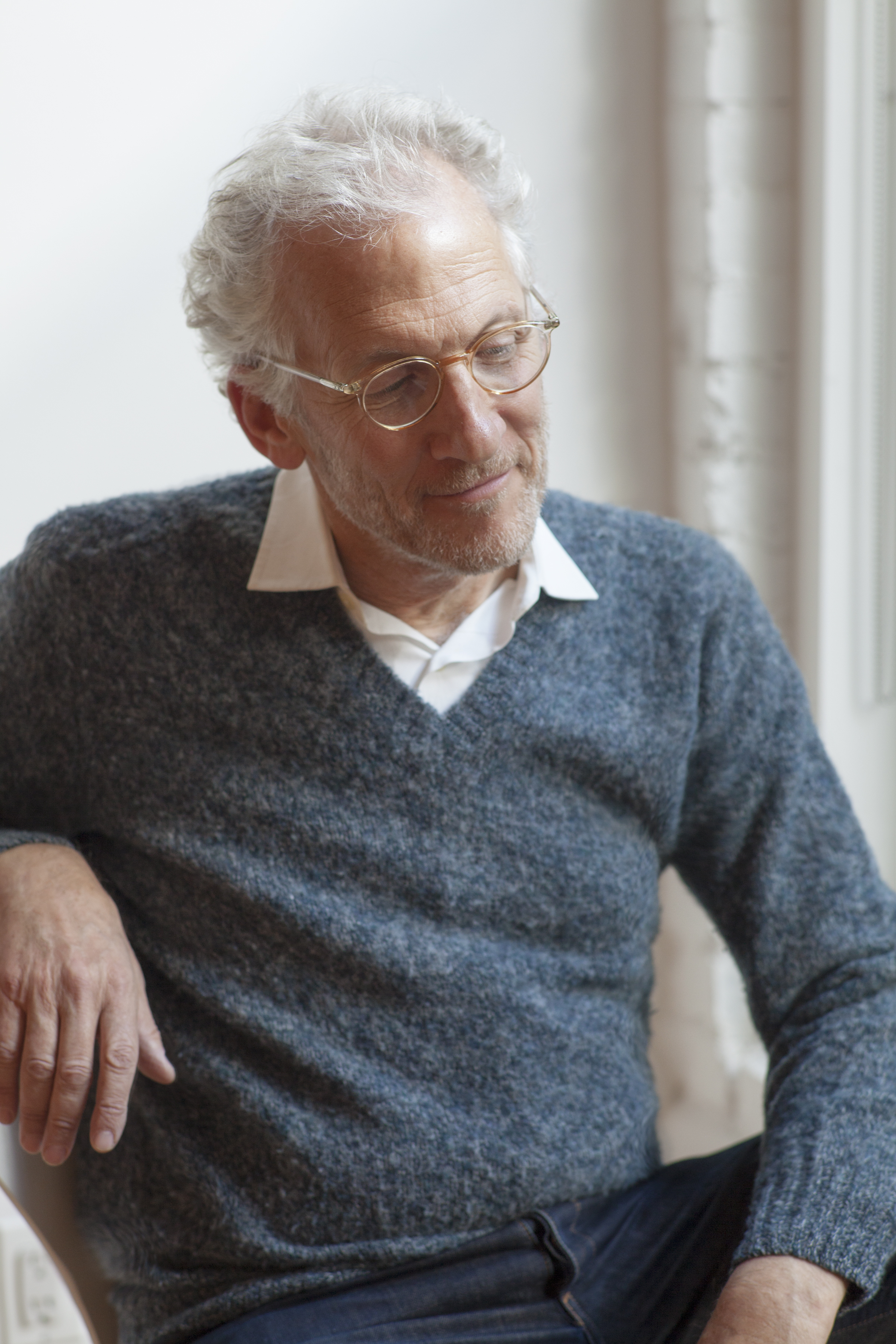 Portrait of Mitch Epstein by Nina Subin.